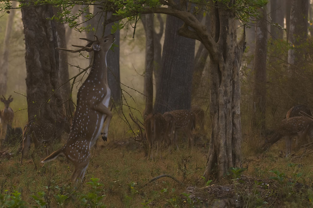 Chital browsing for leaves on a tree